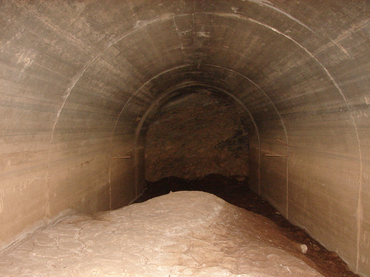 Hex River Tunnel, original eastern portal Location: Kleinstraat, near Touwsrivier, Western Cape. The tunnel floor has probably been silted up by about 6 to 10 feet since 1950. The floor is cracked silt, dry about halfway in and wet and slippery deeper in. The whole place appears to be under water every rainy season, and the silt has built up considerably over the years.